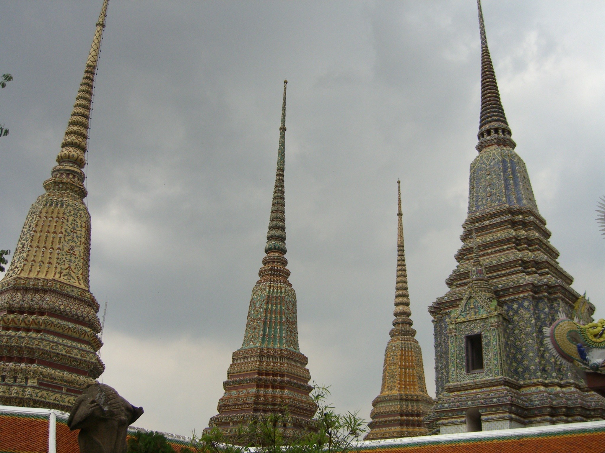 mad Buddhist bling at Wat Pho